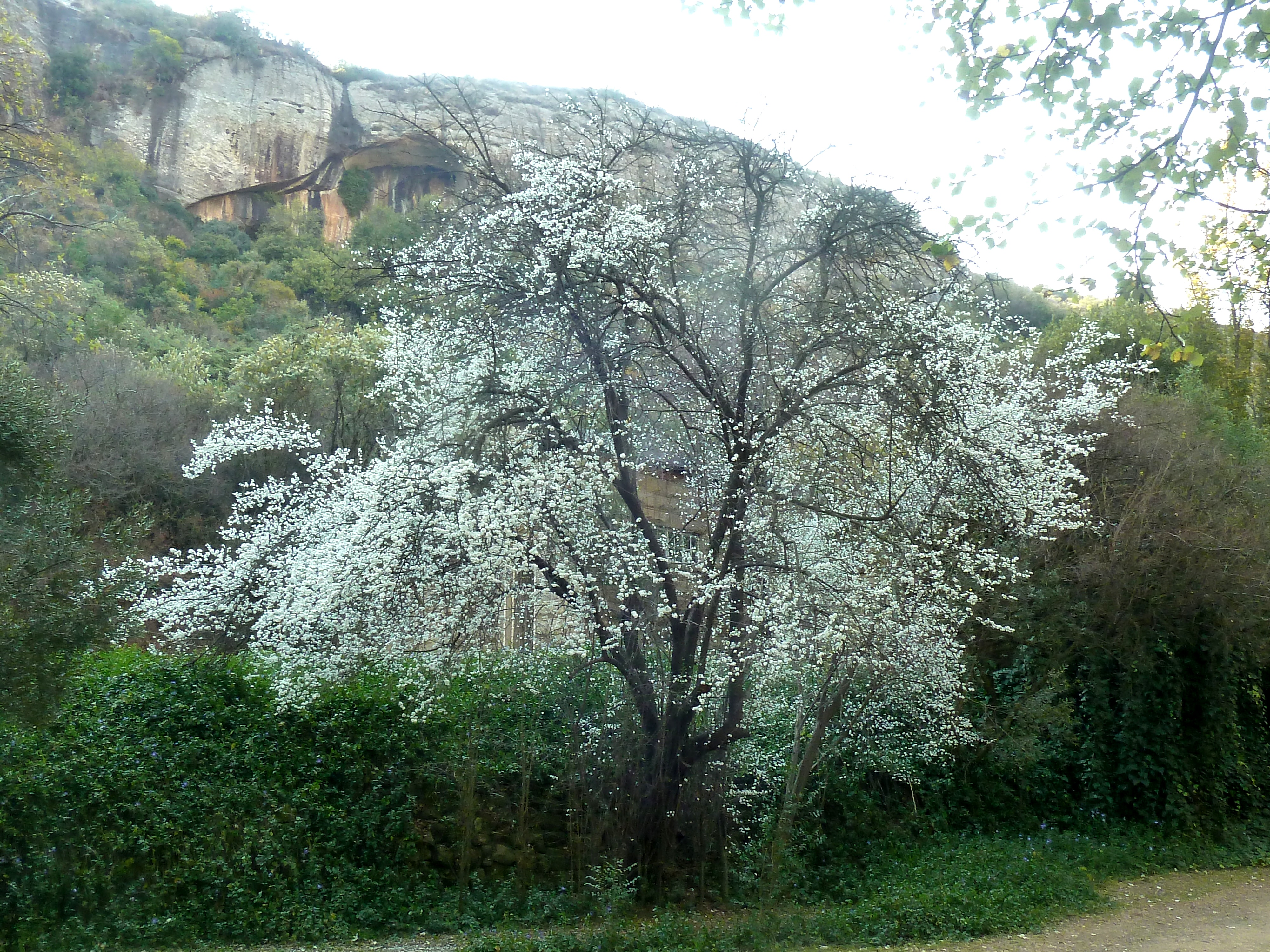 A Sweet cherry tree in bloom at Meiringskloof, Fouriesburg